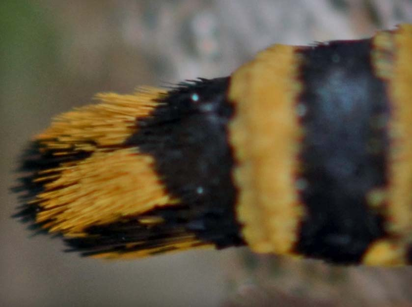 Bembecia ichneumoniformis ([Denis & Schiffermüller], 1775), (or closely related species?). photographed at the top of beach and near the cliff in Morgat (Finistère, Britain, west of France).